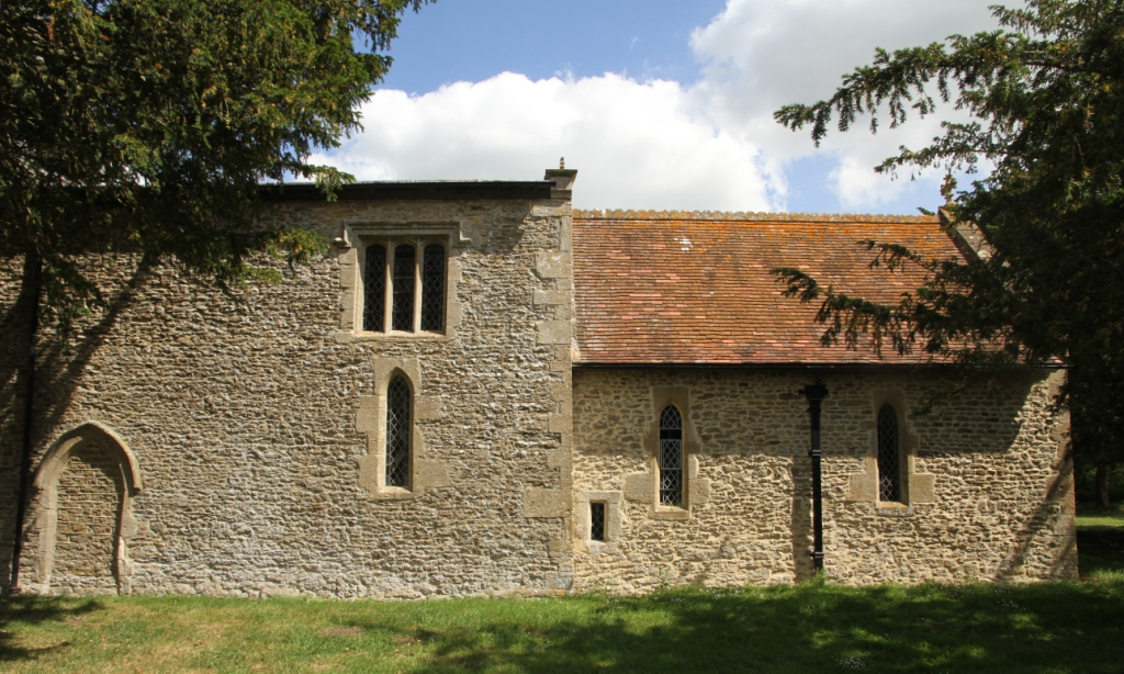 St Mary the Virgin parish church, Lyford, Oxfordshire (formerly Berkshire): south side of chancel (right) and part of nave (left), seen from the south